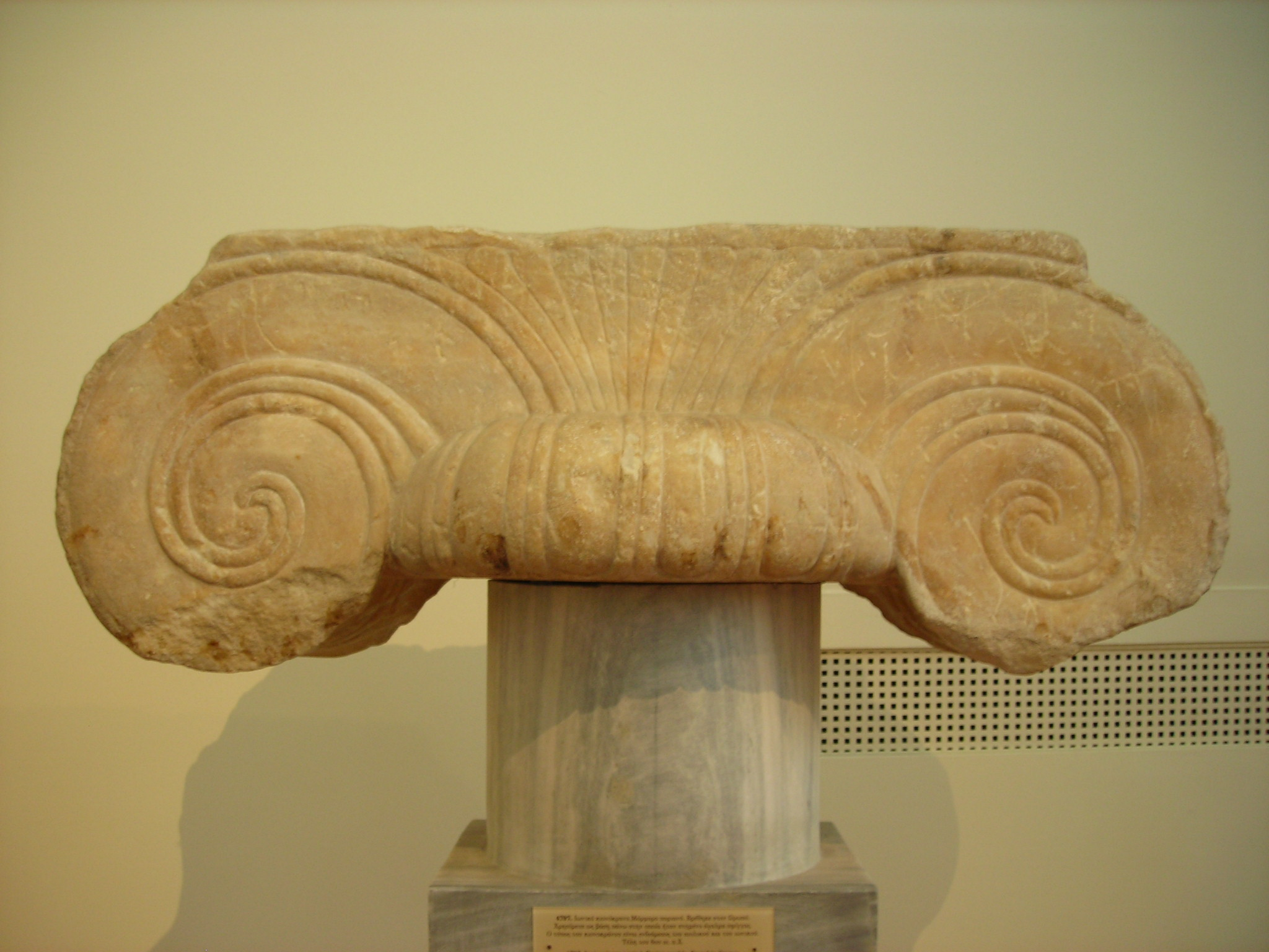 Ionic column capital found in Oropos. Functioned as pedestal for the statue of a Sphinx.